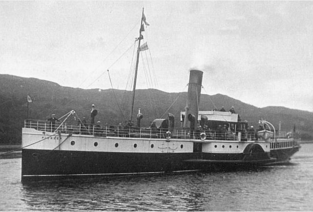 On 2 February 1905, PS Pioneer was launched by A. & J. Inglis, Glasgow. She was of a light design, enabling her to reach West Loch Tarbert pier during the light spring tides. As a result of this her paddle wheels were small and her paddle boxes did not protrude above the promenade deck.